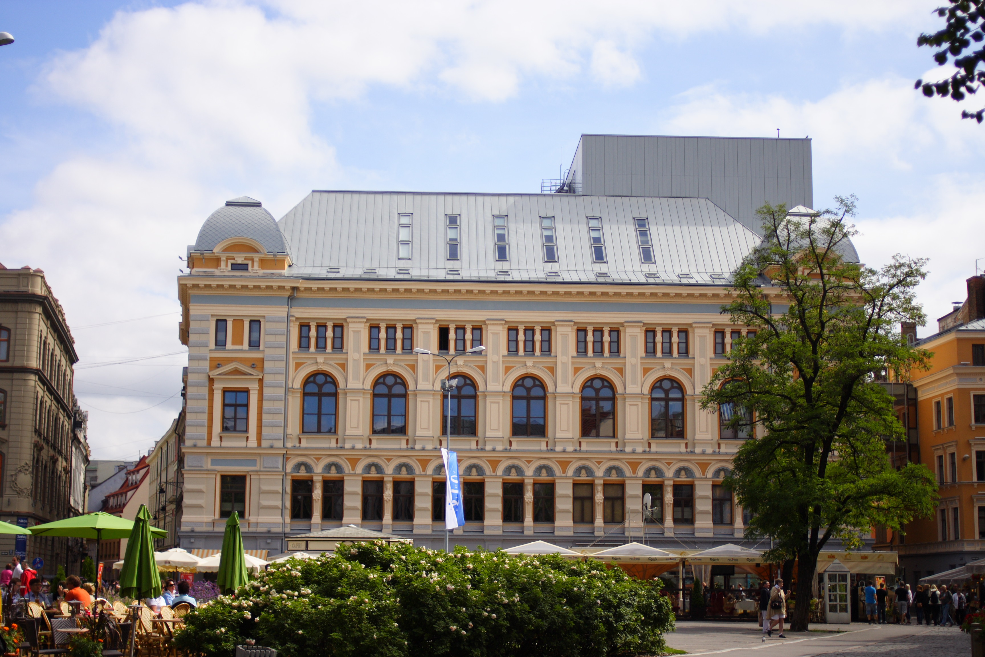 Mikhail Chekhov Riga Russian Theatre